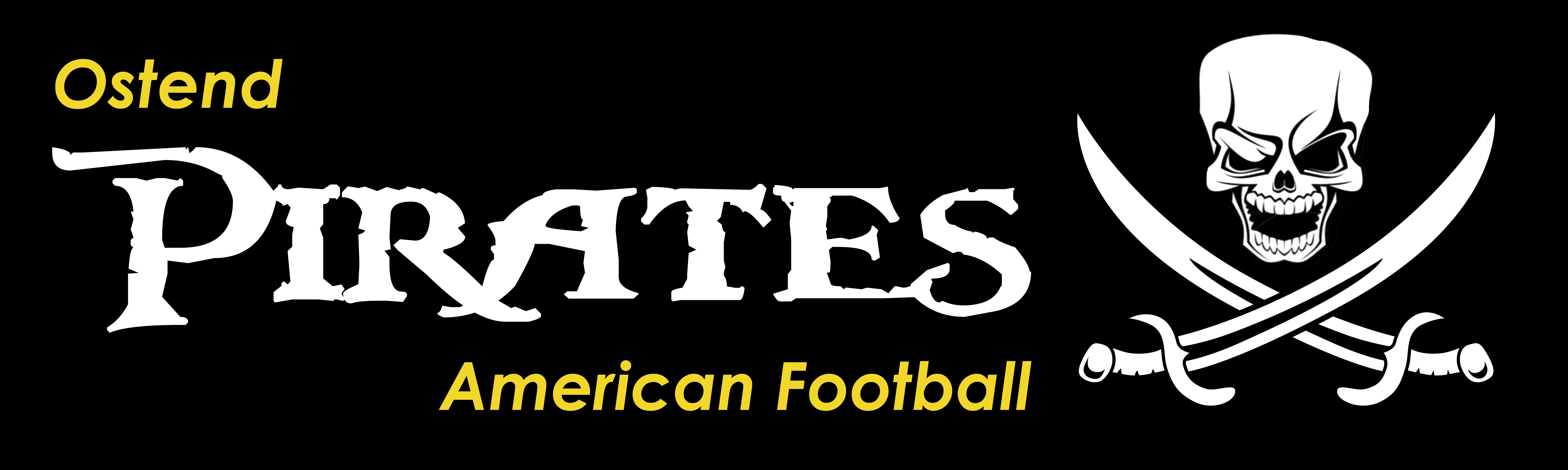 Ostend Pirates